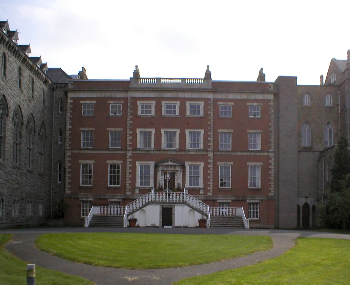 original digital image Suckindiesel 21:52, 15 April 2007 (UTC)